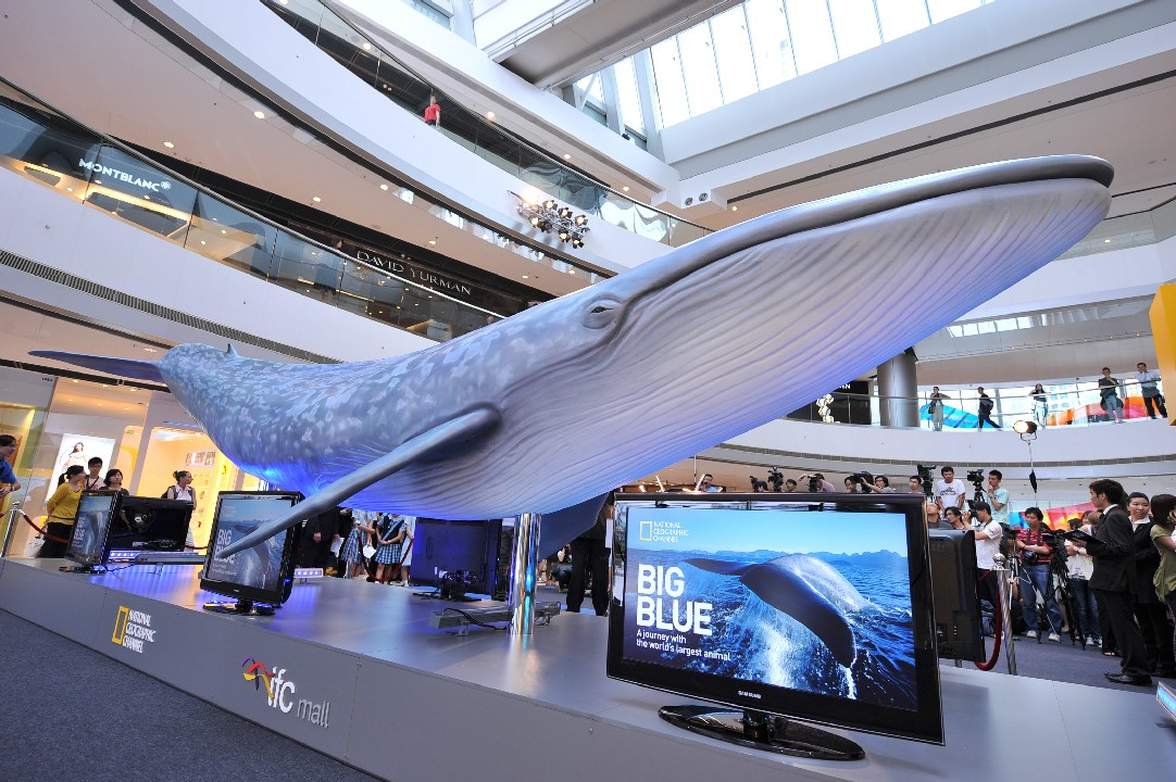 ifc 2009 Big Blue